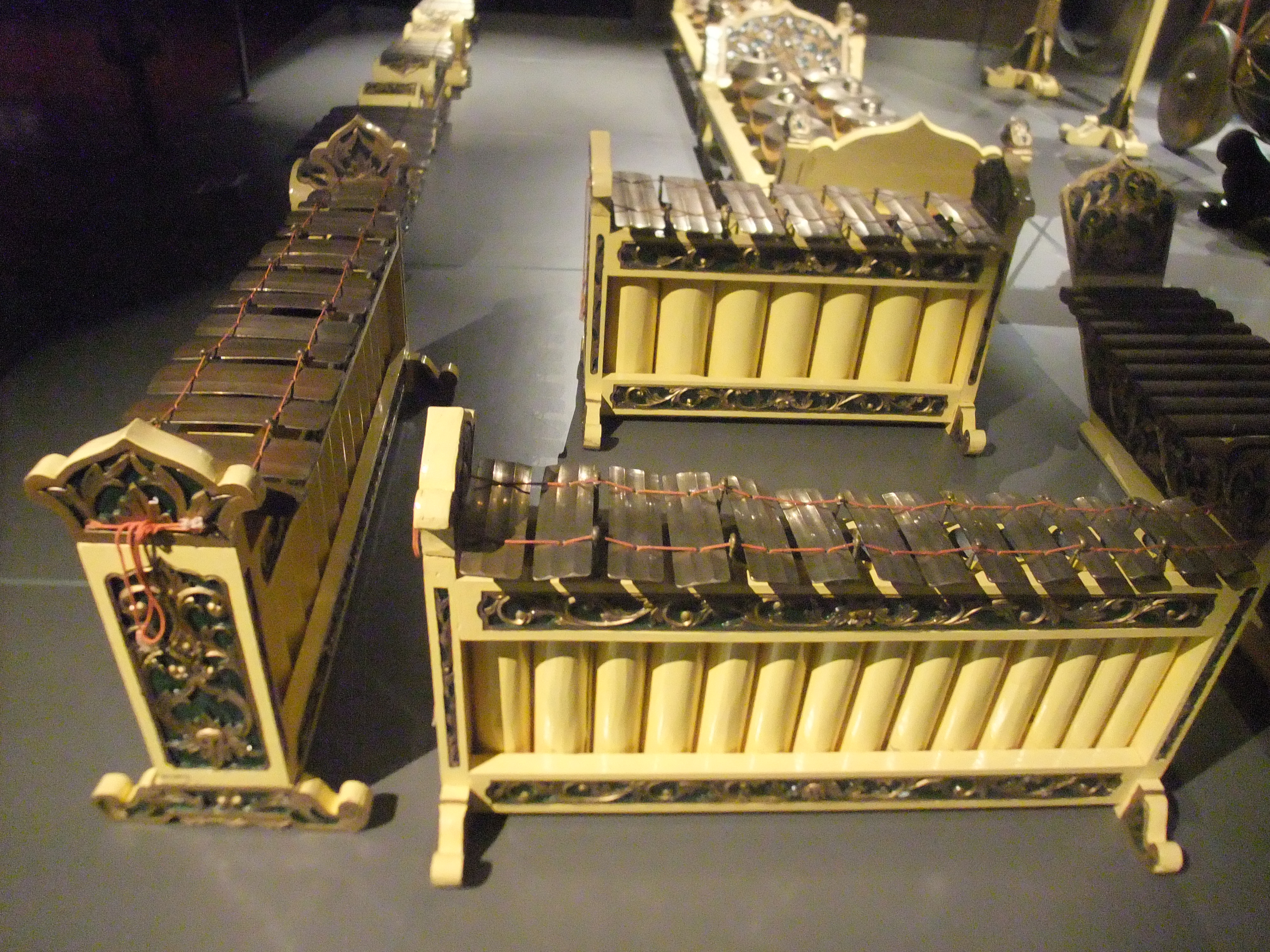 Sanur, or a metallophone, part of a gamelan orchestra